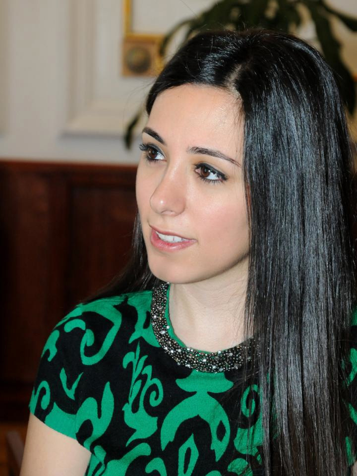 Jaffa image